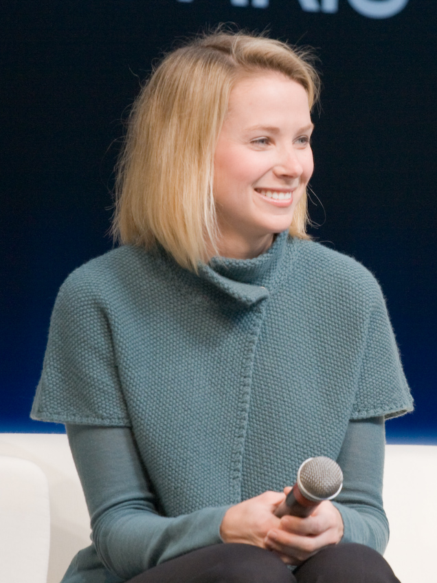 Marissa Mayer at LeWeb in 2008.